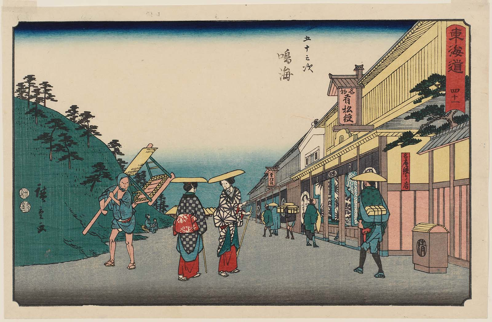 No. 41 - Narumi: Shops Selling the Famous Tie-dyed Fabric (Narumi, meisan shibori mise), from the series The Tôkaidô Road - The Fifty-three Stations (Tôkaidô - Gojûsan tsugi), also known as the Reisho Tôkaidô